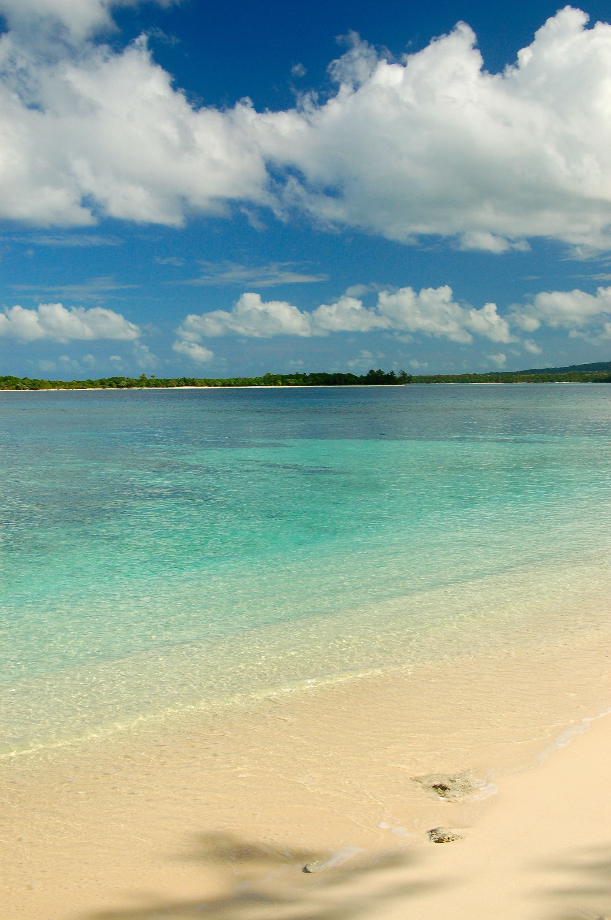 Eratap Beach, Vanuatu